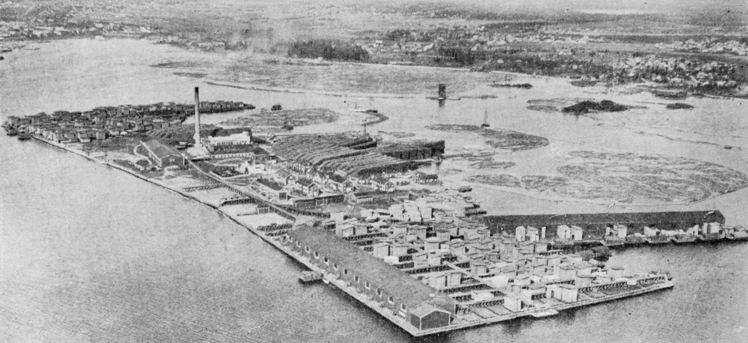 Laitakari sawmill in Kemi in 1934.